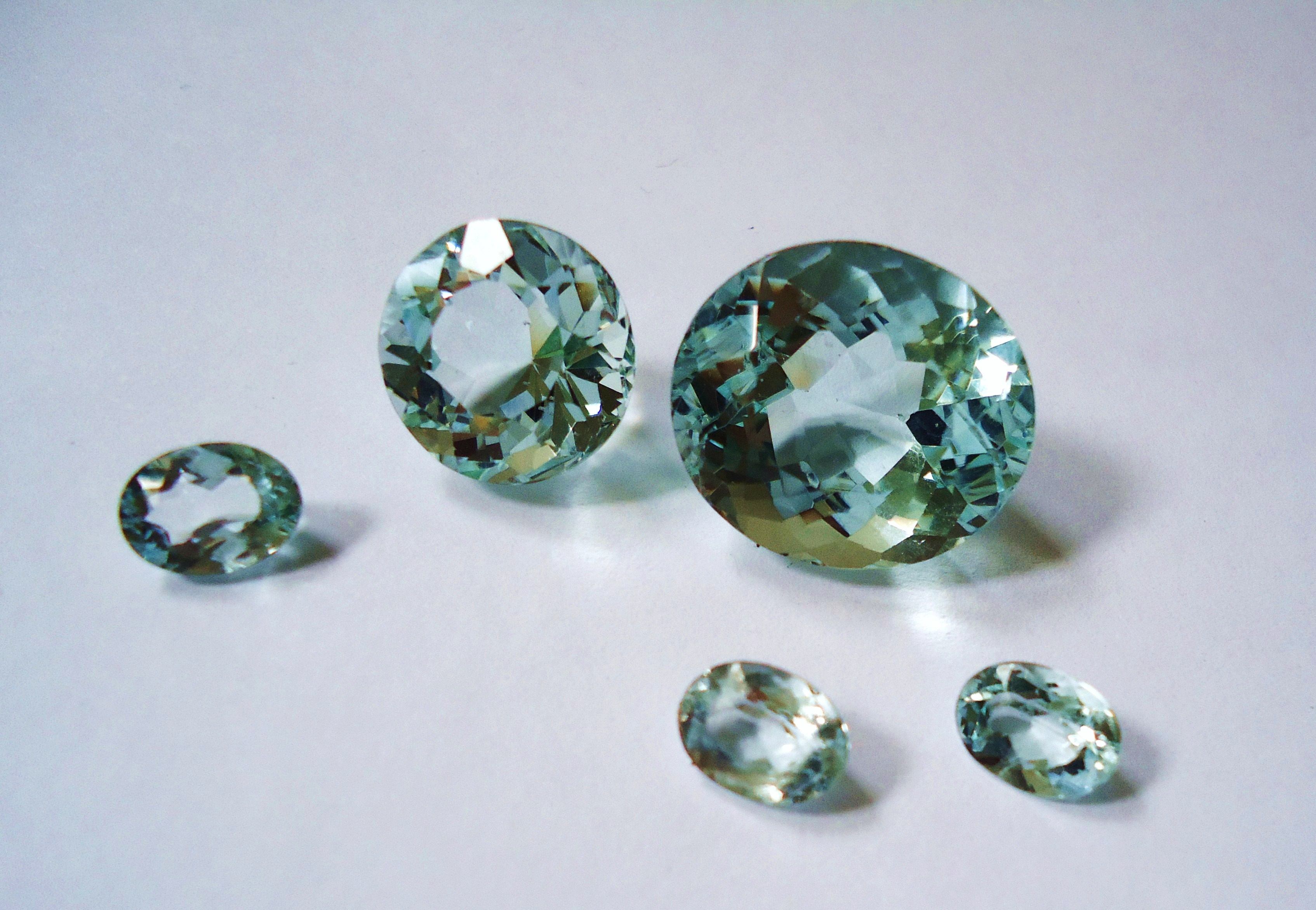 Diameter of the largest: 20 mm.